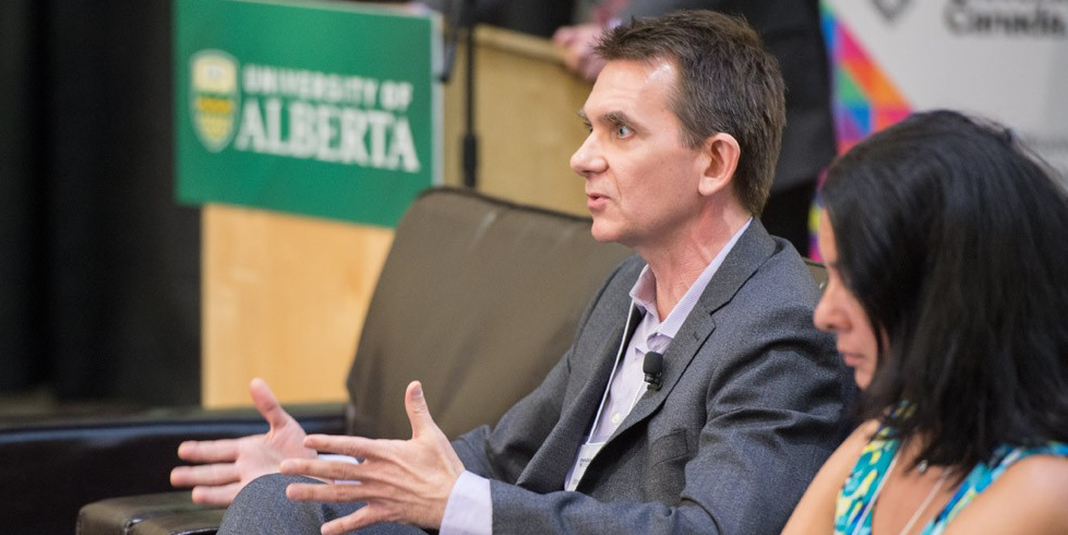 Canadian intellectual Imre Szeman addresses an audience at the University of Alberta in 2016.